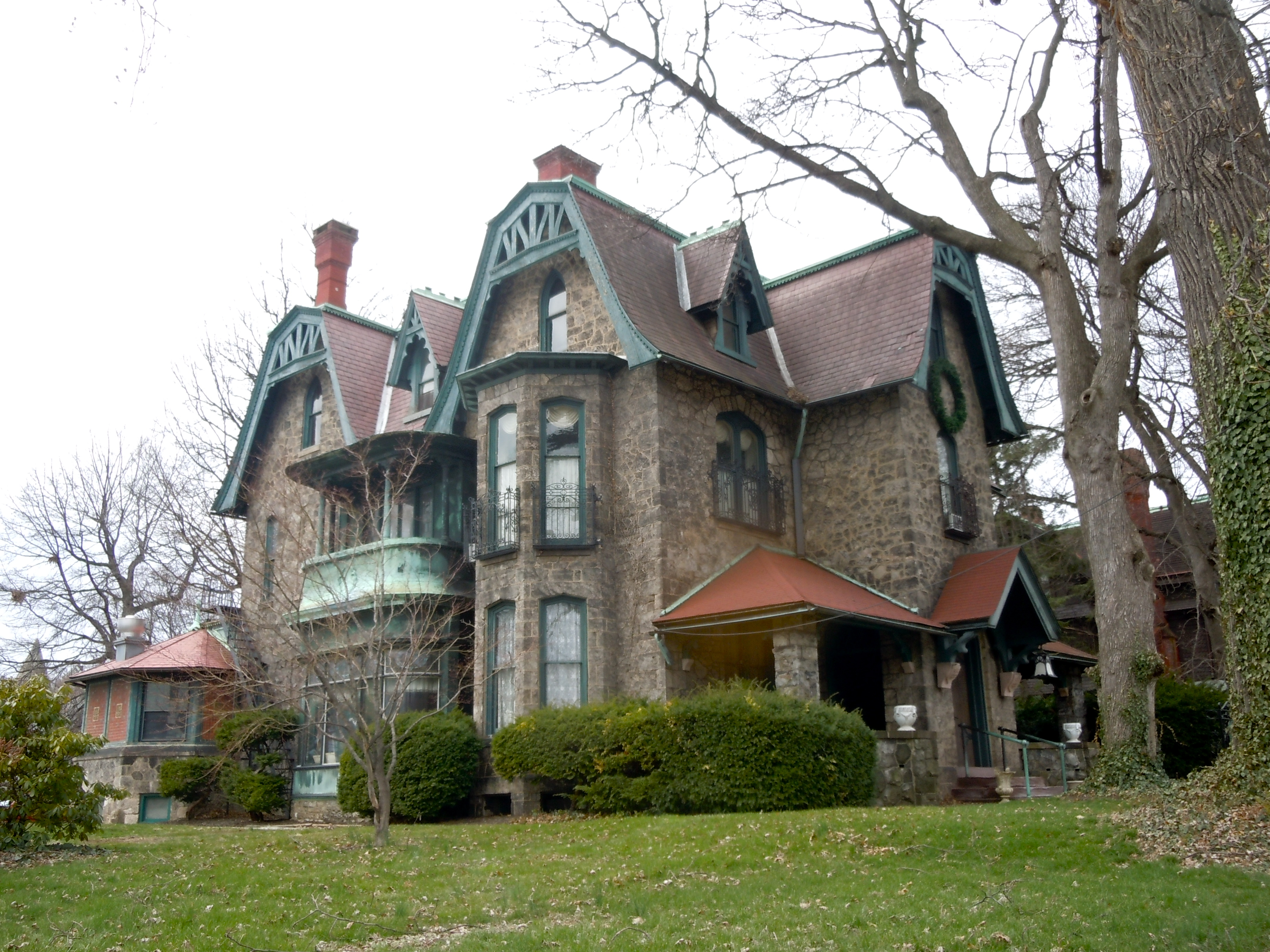 Wilhelm Mansion and Carriage House on the NRHP since March 1, 1982. At 730 Centre Avenue, Reading, Berks County, Pennsylvania